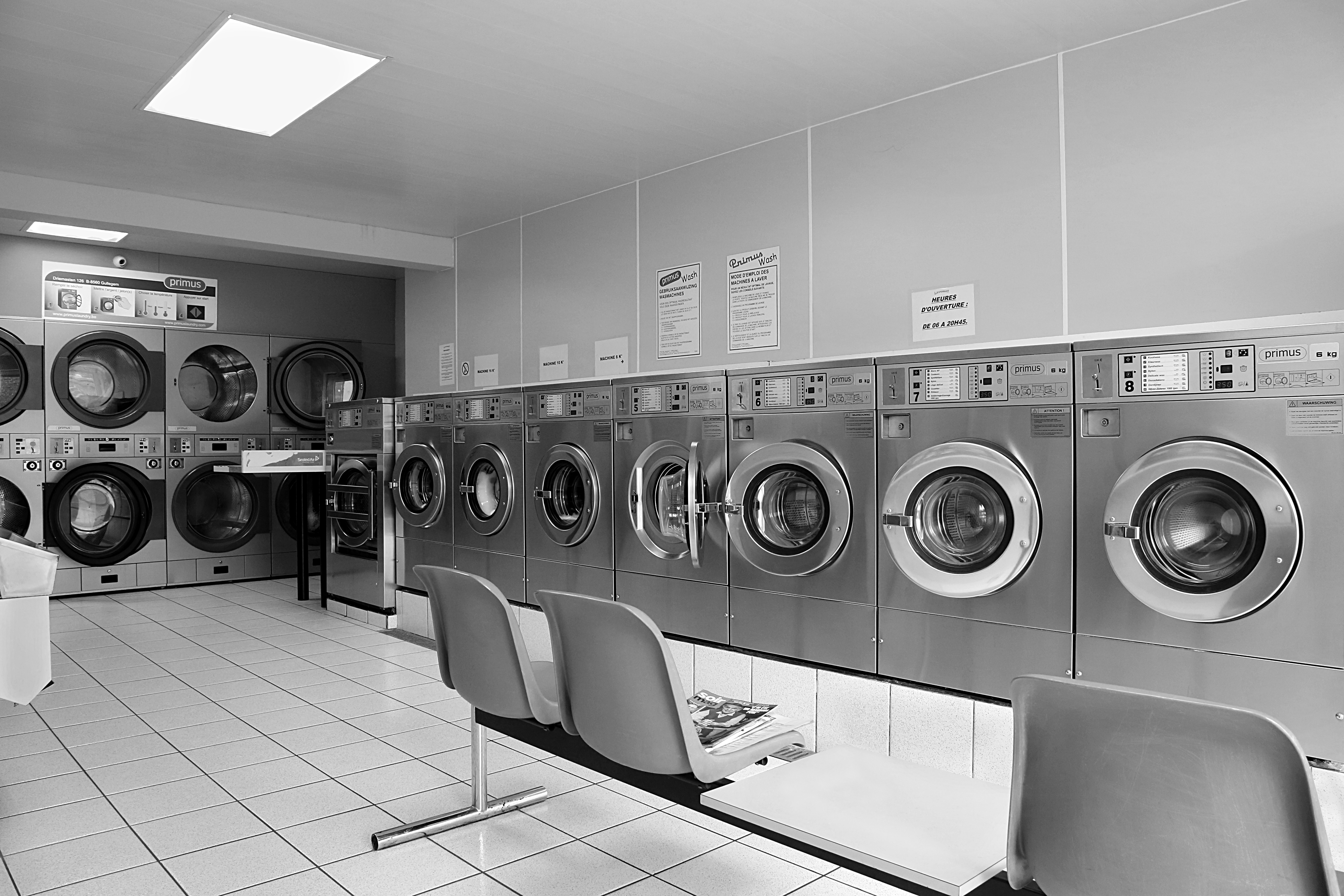 A laundromat in Mouscron, Belgium.